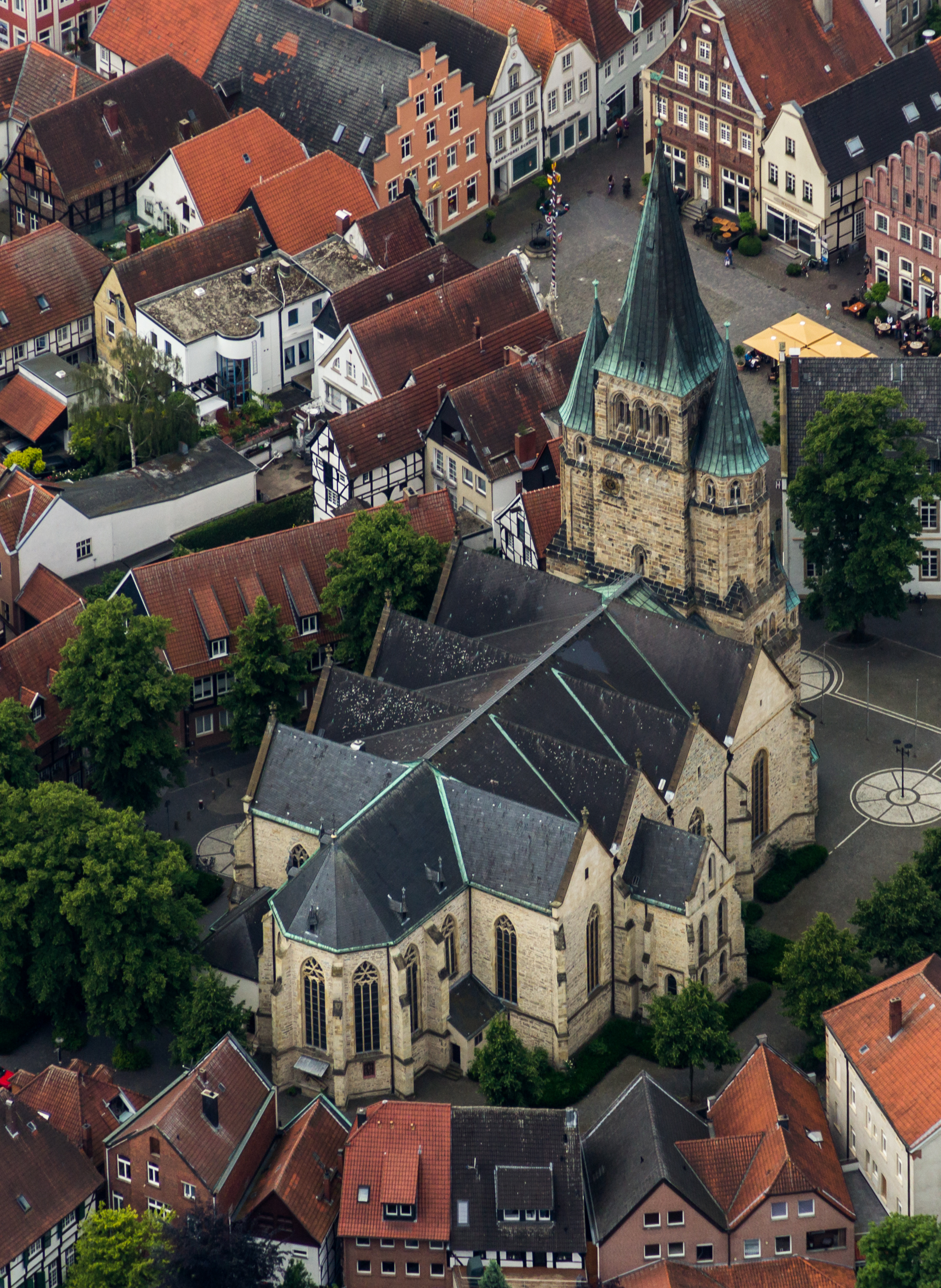 St. Lawrence Church, Warendorf, North Rhine-Westphalia, Germany This image shows a heritage building in Germany, located in the North Rhine-Westphalian city Warendorf (no. 384).